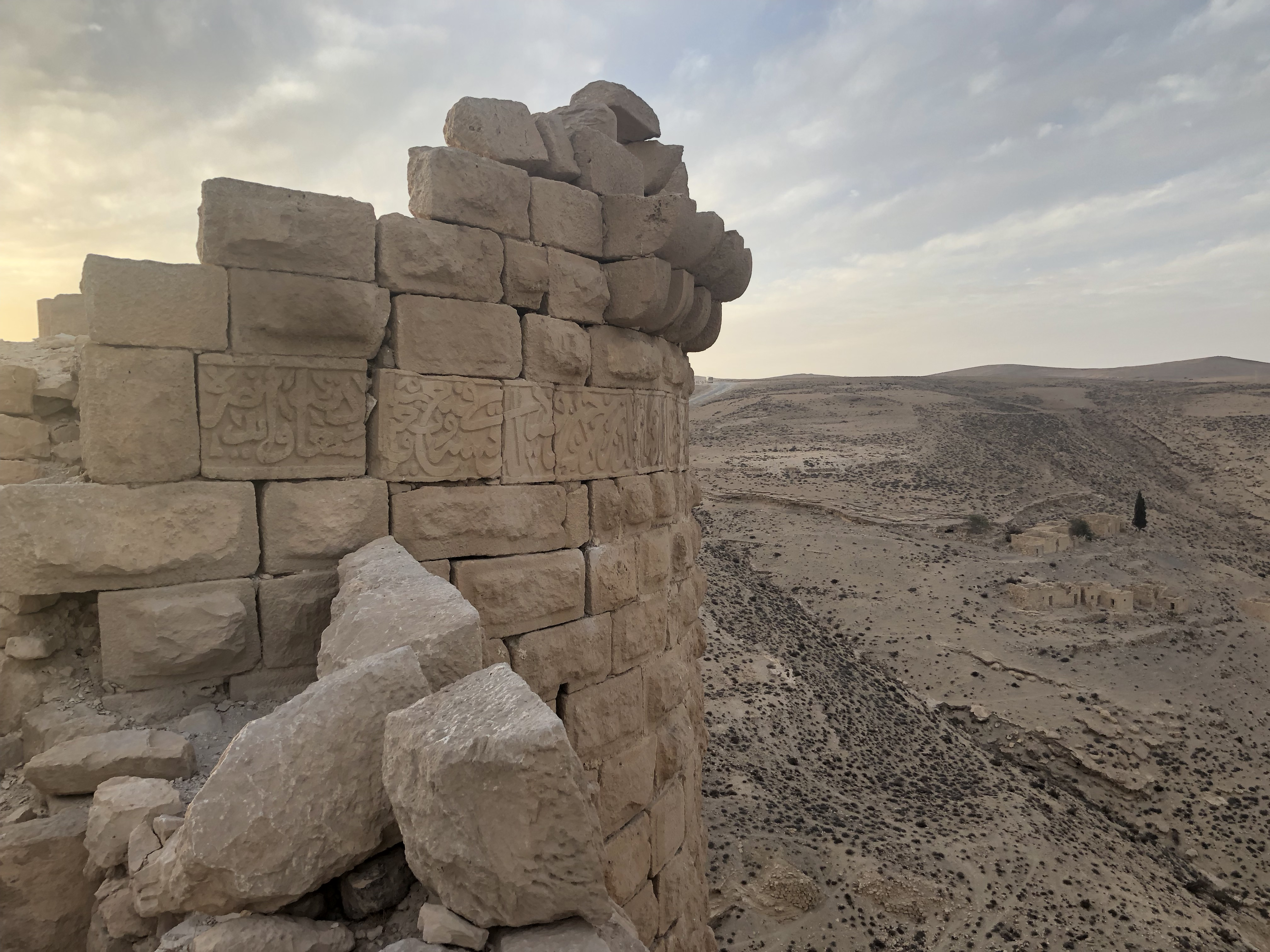 Montréal Castle